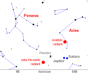 This star chart shows the appearance of the eastern sky at 5:00 am on June 7, 2000 from a mid-northern latitude observing site. The Arietids radiant is 15 degrees above the horizon, while the zeta Perseids radiant is a scant 4 degrees high. Although meteors can streak very far from their radiants, it is difficult to spot many shooting stars when the radiant is low. Both the Arietid and Perseid meteor rates pick up substantially later in the day when the radiants move overhead.